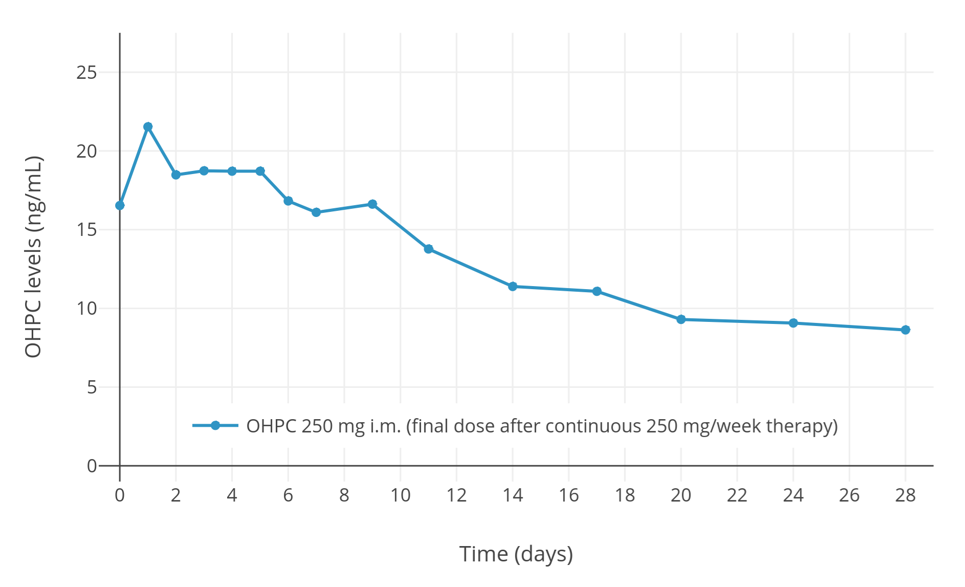 Hydroxyprogesterone caproate levels after a final dose following continuous therapy with 250 mg per week hydroxyprogesterone caproate by intramuscular injection in 18 pregnant women with singleton gestation. Source of the values: (November 2012). "Pharmacology and placental transport of 17-hydroxyprogesterone caproate in singleton gestation". Am. J. Obstet. Gynecol. 207 (5): 398.e1–8. PMID 22967833. PMC: 3586341.